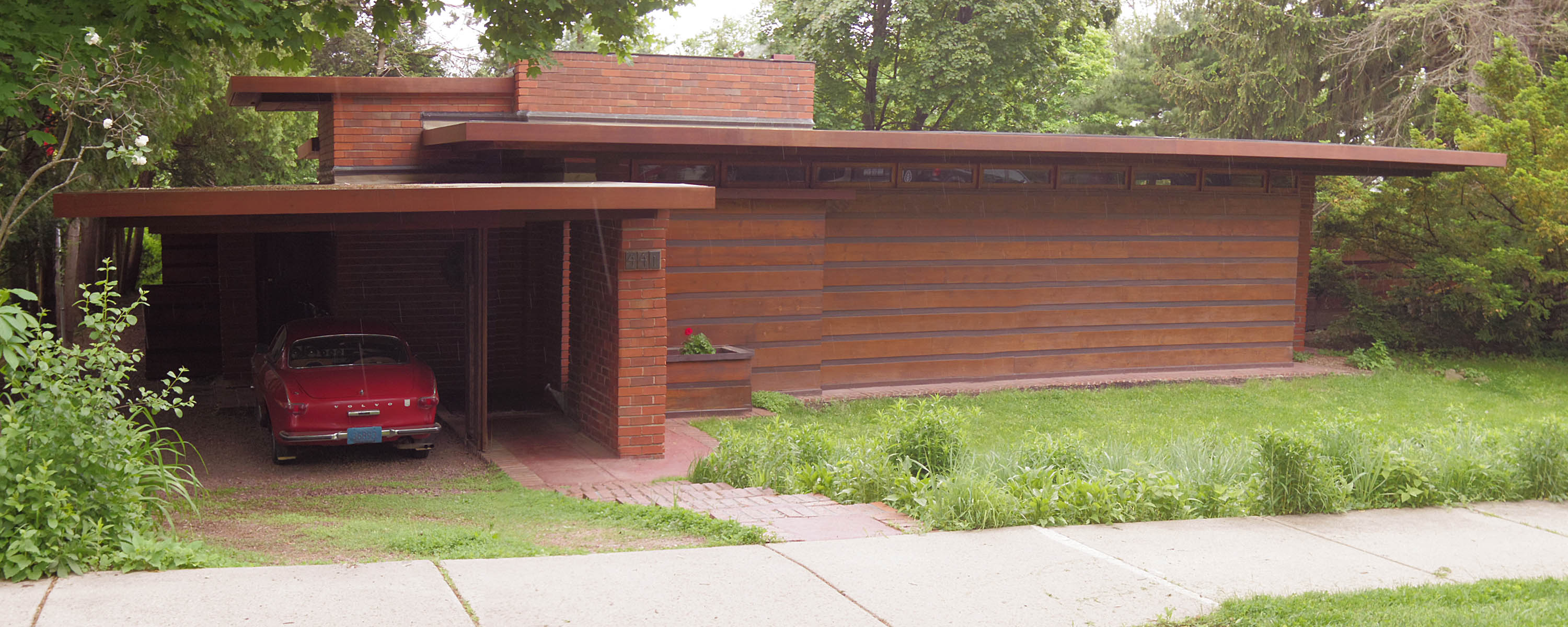 Frank Lloyd Wright's first Usonian house